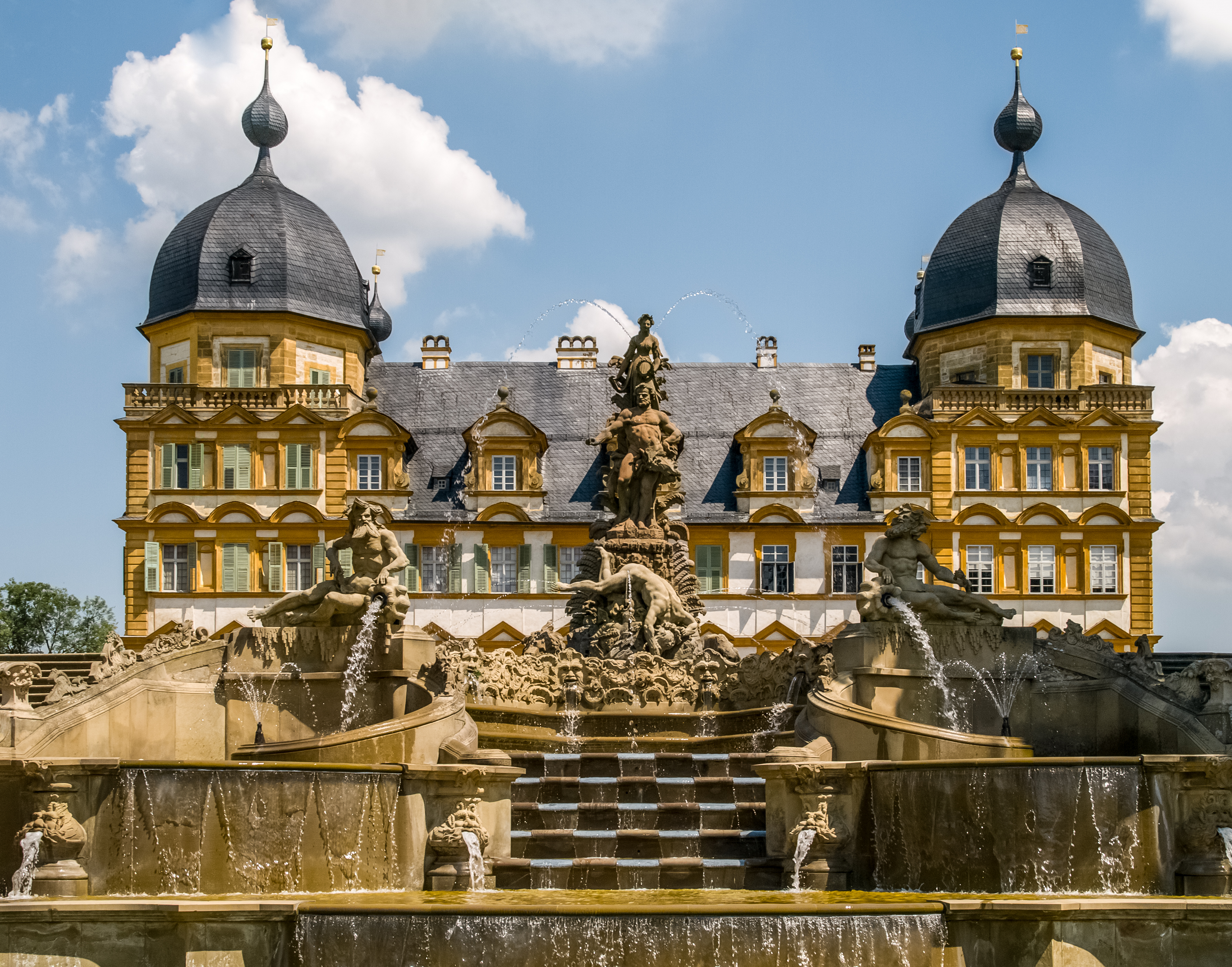 View at Seehof castle with cascades in the front